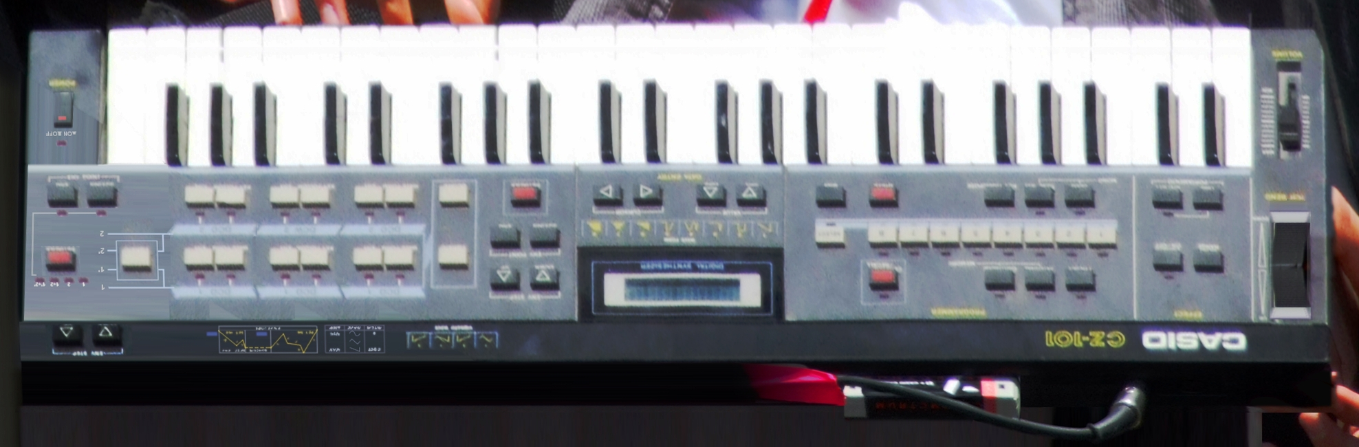 Casio CZ-101 clipped from Adam (Jupiter's Ring) at Coachella Valley Music and Arts Festival, Saturday April 26'th 2008